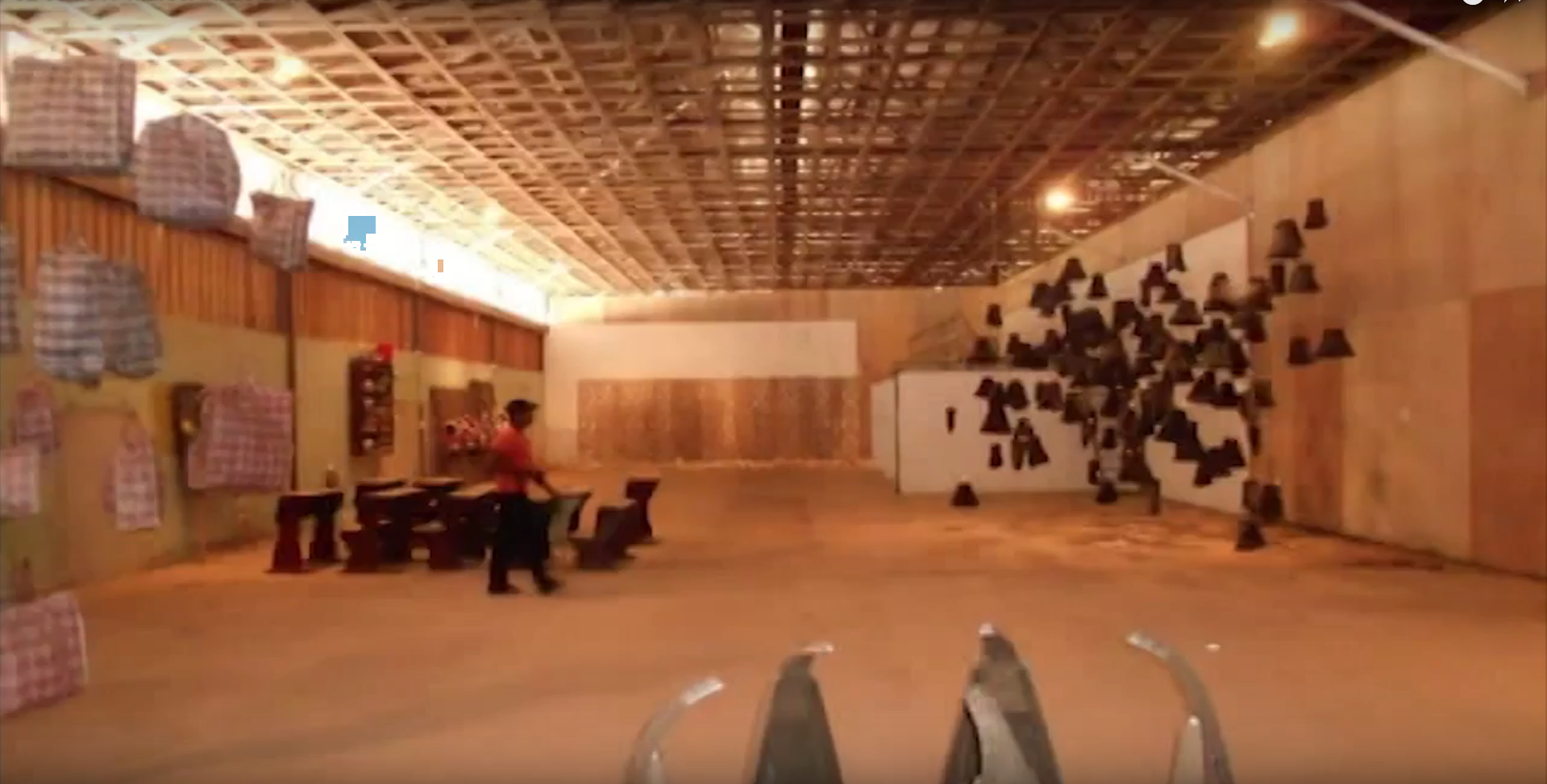 Tembe Art Studio